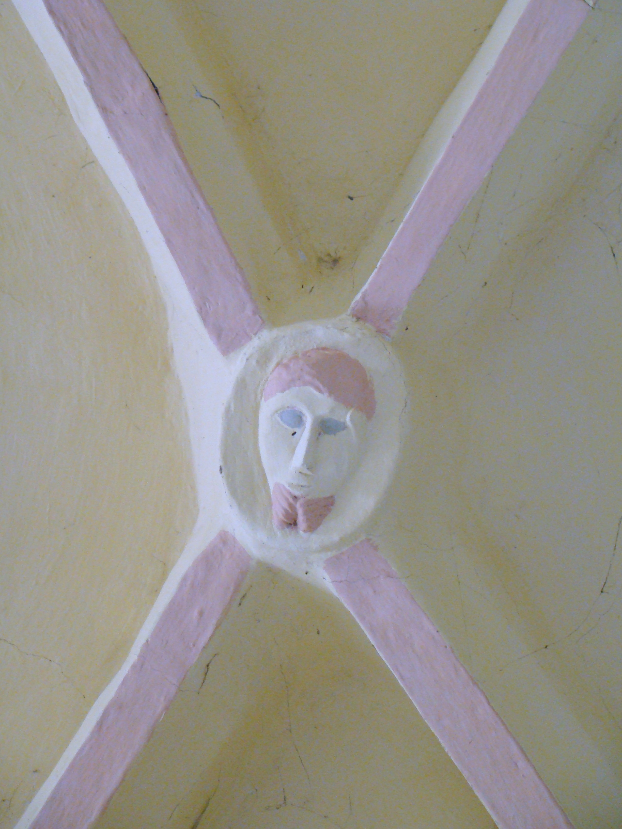 Lutheran church in Seleuș (Daneș), Mureș county, Romania